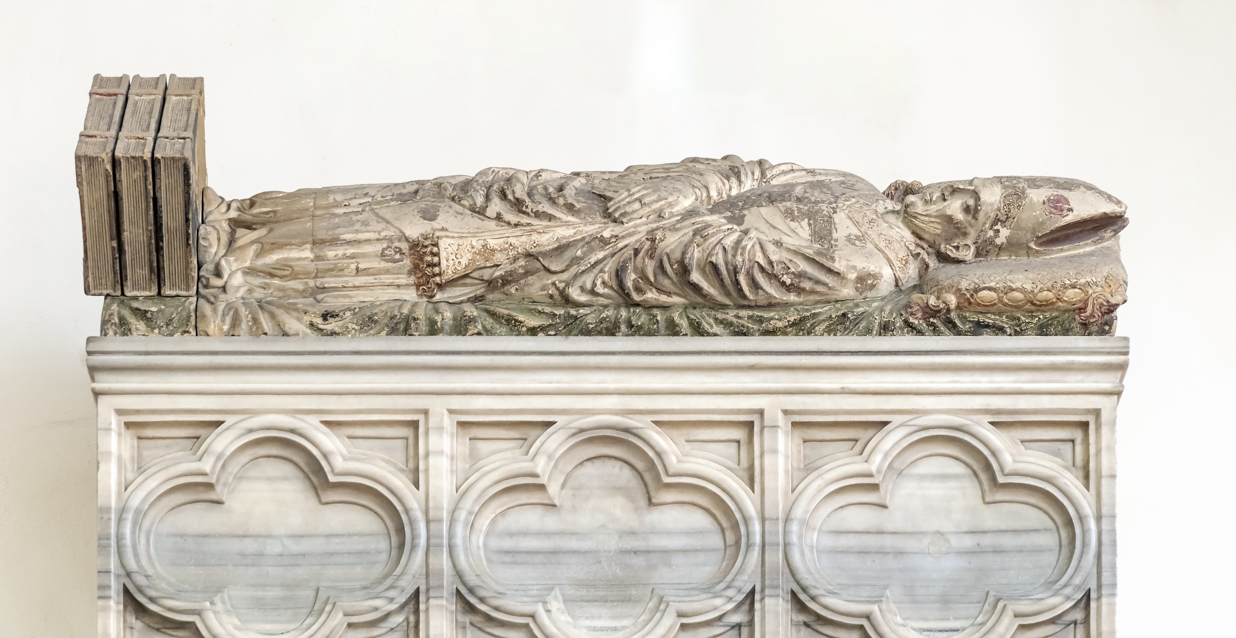 Tomb effigy of Cardinal Francesco Zabarella (1360-1417), bishop of Florence and professor of canon law at the University of Padua.